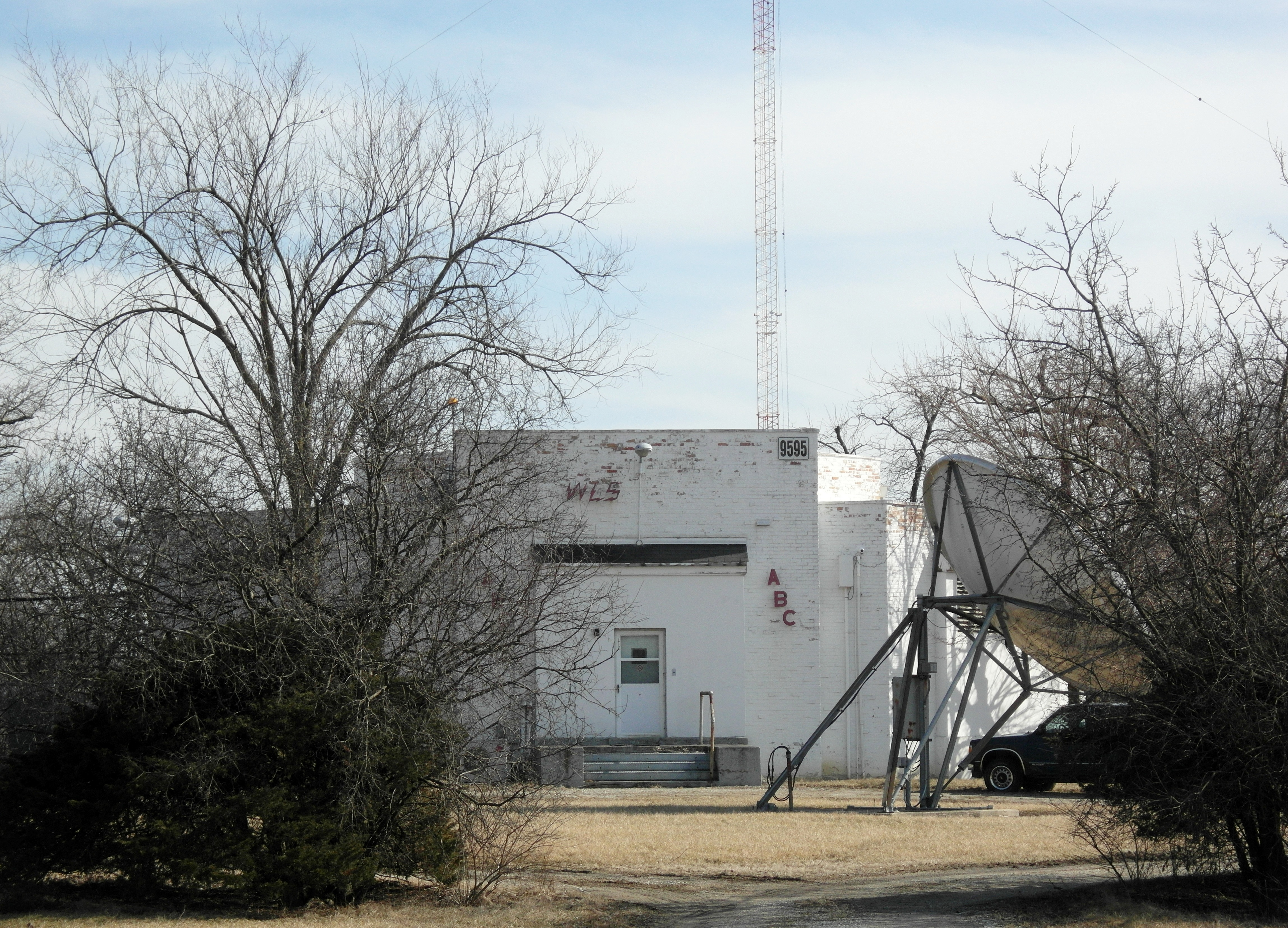 WLS AM 890's transmitter building in Tinley Park, Illinois.